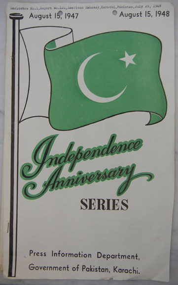 Cover of a press release (Independence Anniversary Series) by the Press Information Department, Government of Pakistan, Karachi in 1948 in relation to the country's first independence day which was celebrated on 15 August 1948. It also mentions Pakistan actual date of independence as 15 August 1947. Independence Day